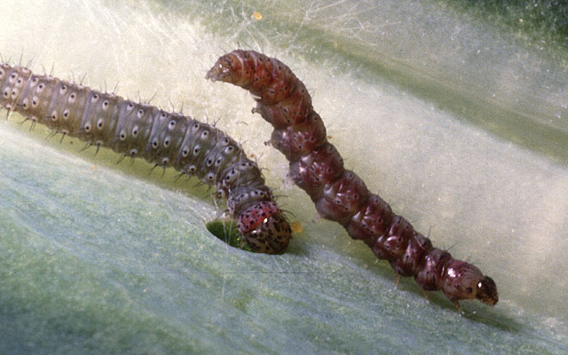 Diamondback moth larvae from Diamondback moth larvae thumbnail Image Number K3729-3 Diamondback moth larvae feed on a cabbage leaf. Photo by Doug Wilson.